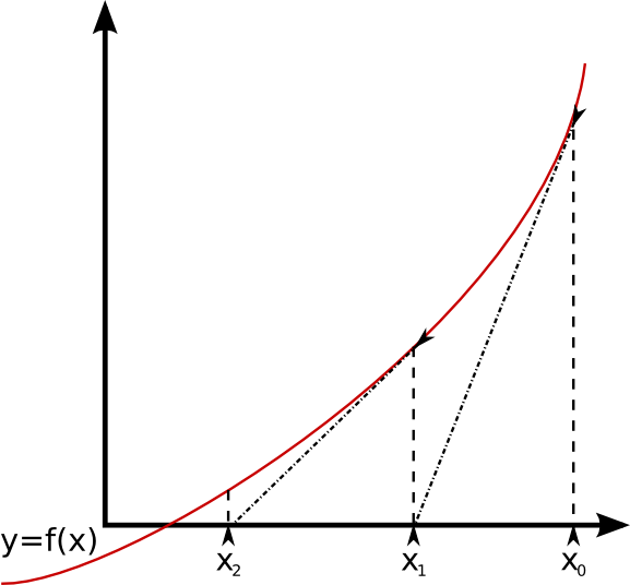 Newton-Raphson method